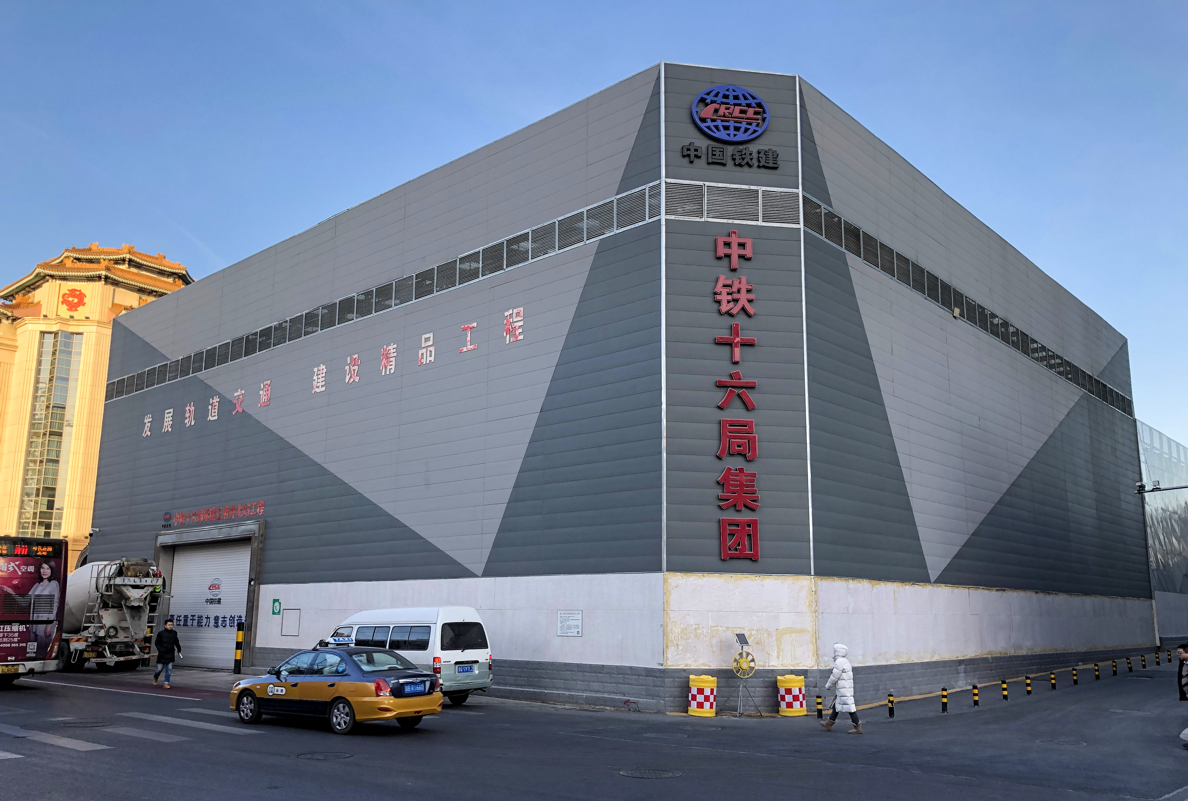 Formerly called Wangfujing North Station.